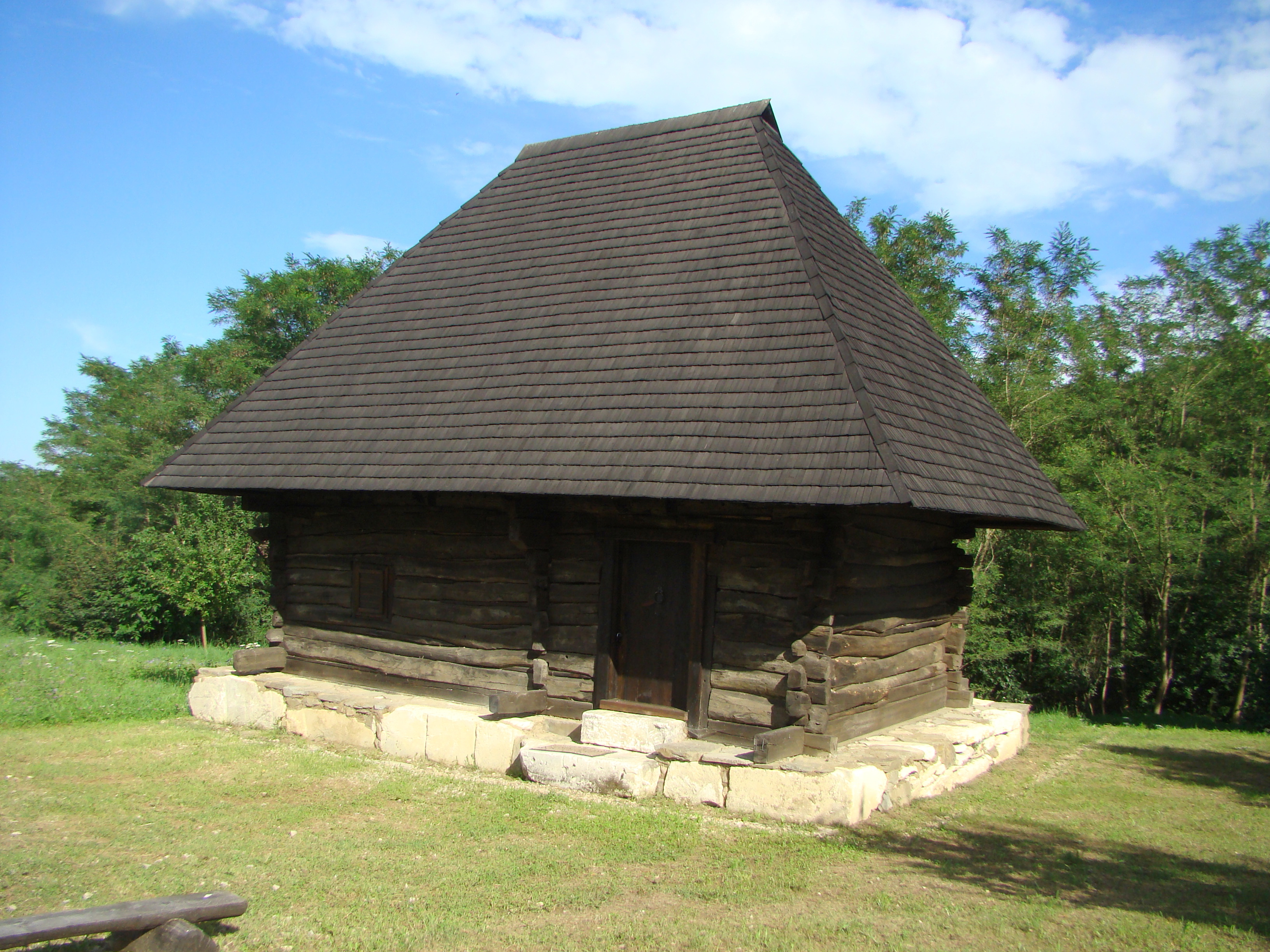 Măgina Monastery, Alba county, Romania